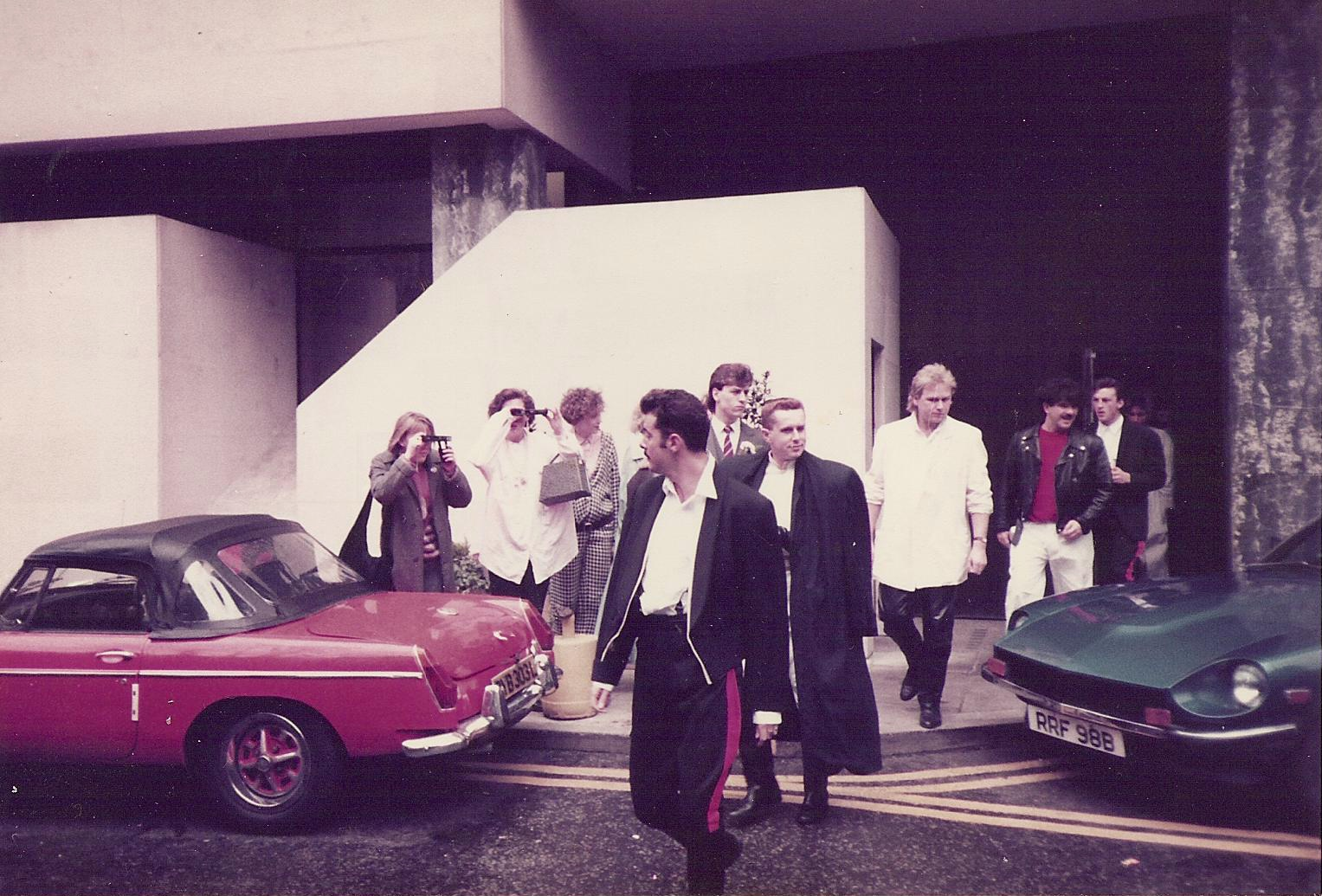 Photograph of Frankie Goes to Hollywood in London. Scanned from original.